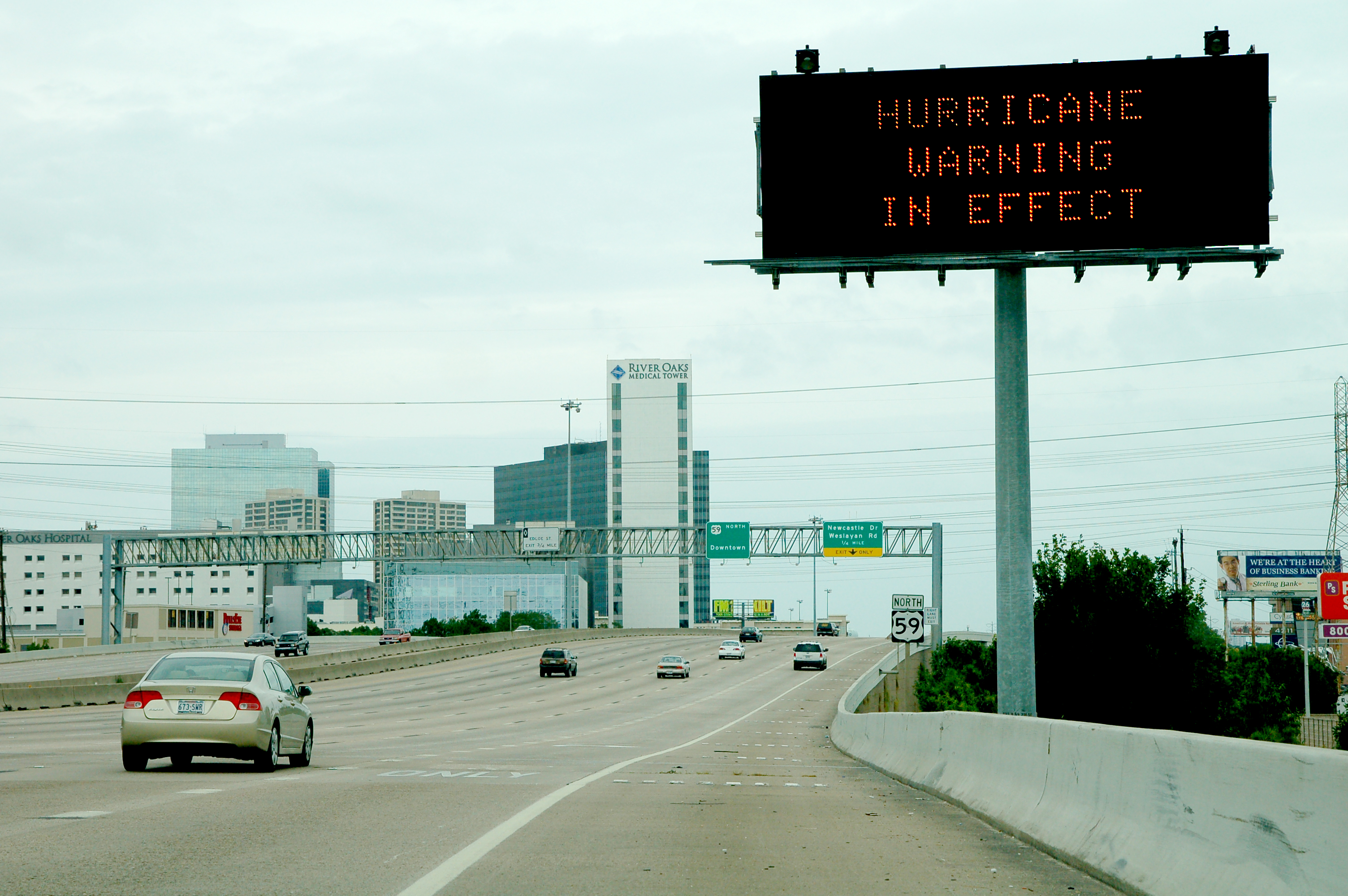 Houston, Texas. Highway sign "Hurricane Warning In Effect" in preparation for Hurricane Ike